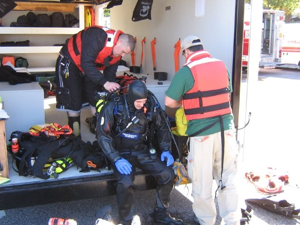 Preparing a diver for water at the trailer